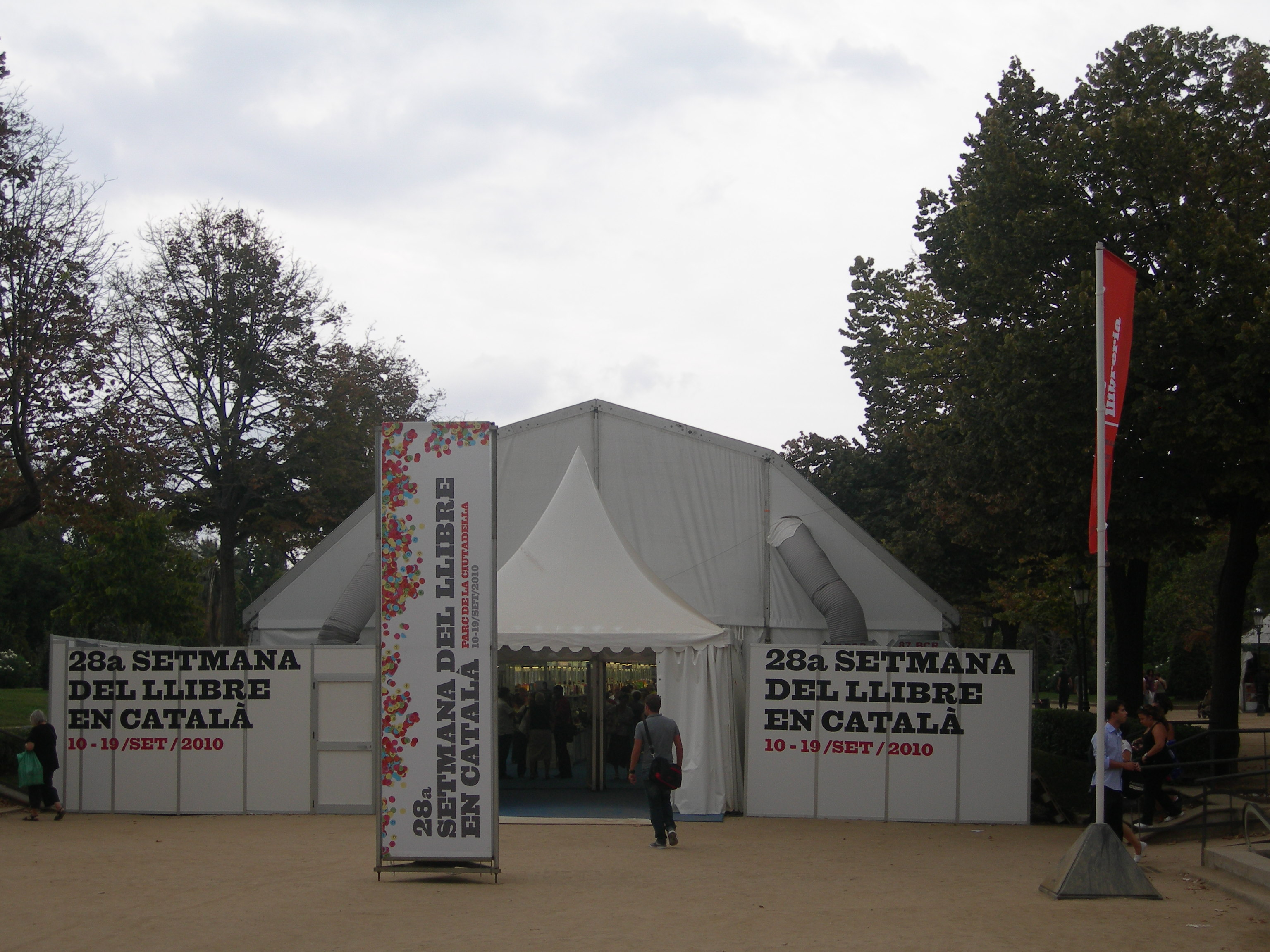 28th Catalan Book's Week entrance in Barcelona, from 10th to 19th September of 2010.